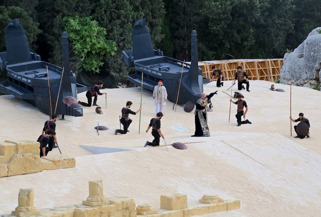 Iphigenia in Aulis by Euripides in the ancient Greek theatre in Syracuse, June 21, 2015.